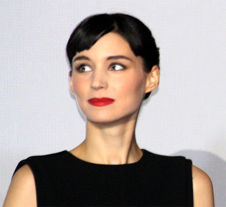 Rooney Mara at the Paris premiere of her film The Girl with the Dragon Tattoo.